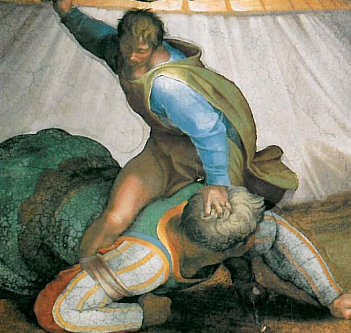 fresco painted by Michelangelo and his assistants for the Sistine Chapel in the Vatican between 1508 to 1512